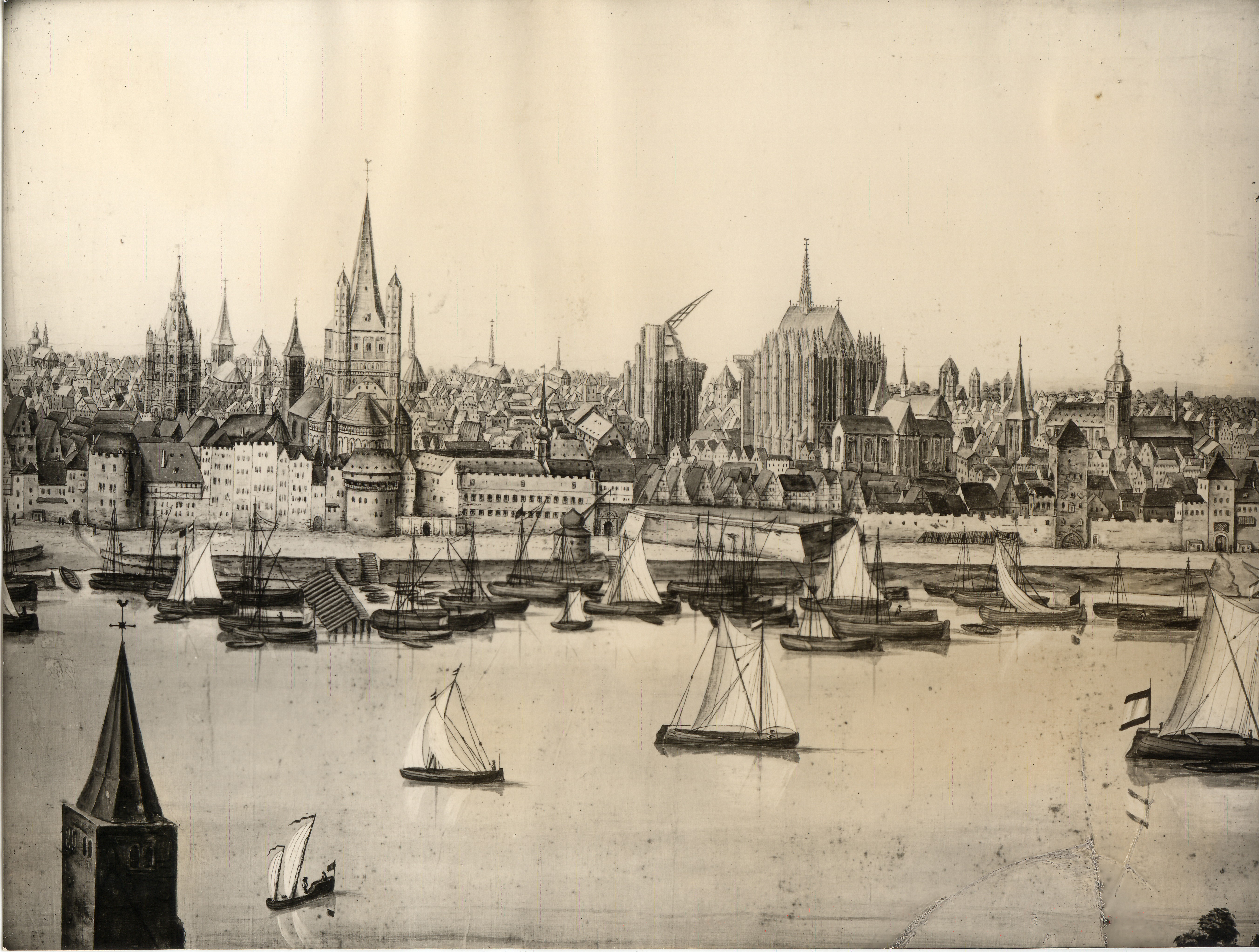 Old townscape of Köln / Cologne, Germany. In the background the unfinished cathedral with ancient crane on south tower.